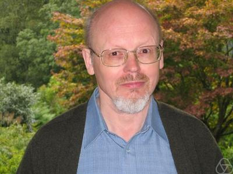 Alexei N. Parshin, Oberwolfach 2005